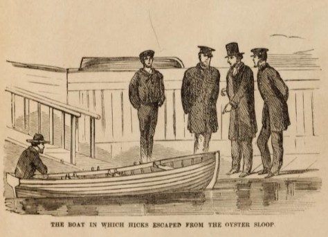 Yawl used by Albert W. Hicks to escape